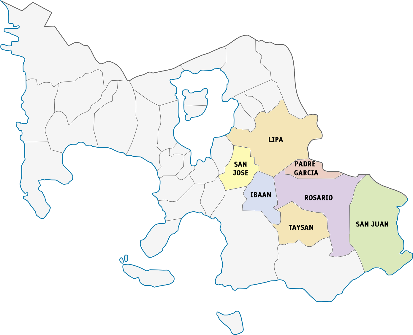 Map of the 4th legislative district of Batangas, PhilippinesTagalog: Mapa ng Ika-apat distrito ng Batangas, Pilipinas